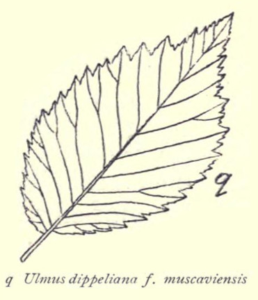 Adapted from page 215 of Illustriertes Handbuch der Laubholzkunde